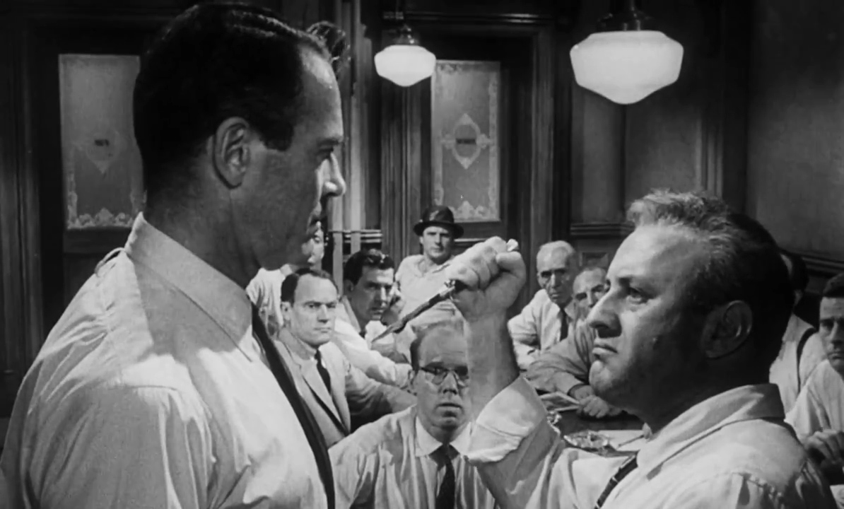 Henry Fonda and Lee J. Cobb in a scene of the trailer of the film 12 Angry Men (1957).